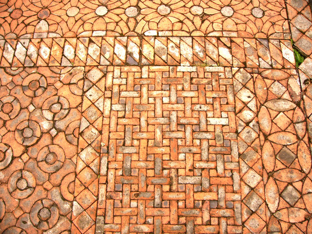 Fountains Abbey Amazing tile work